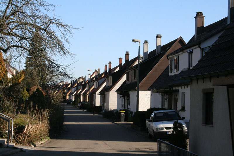 Photo of Stuttgart-Neuwirtshaus, Halligenstraße